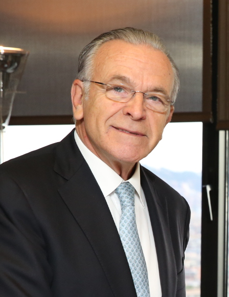 Isidre Fainé Casas, President of the La Caixa savings bank.